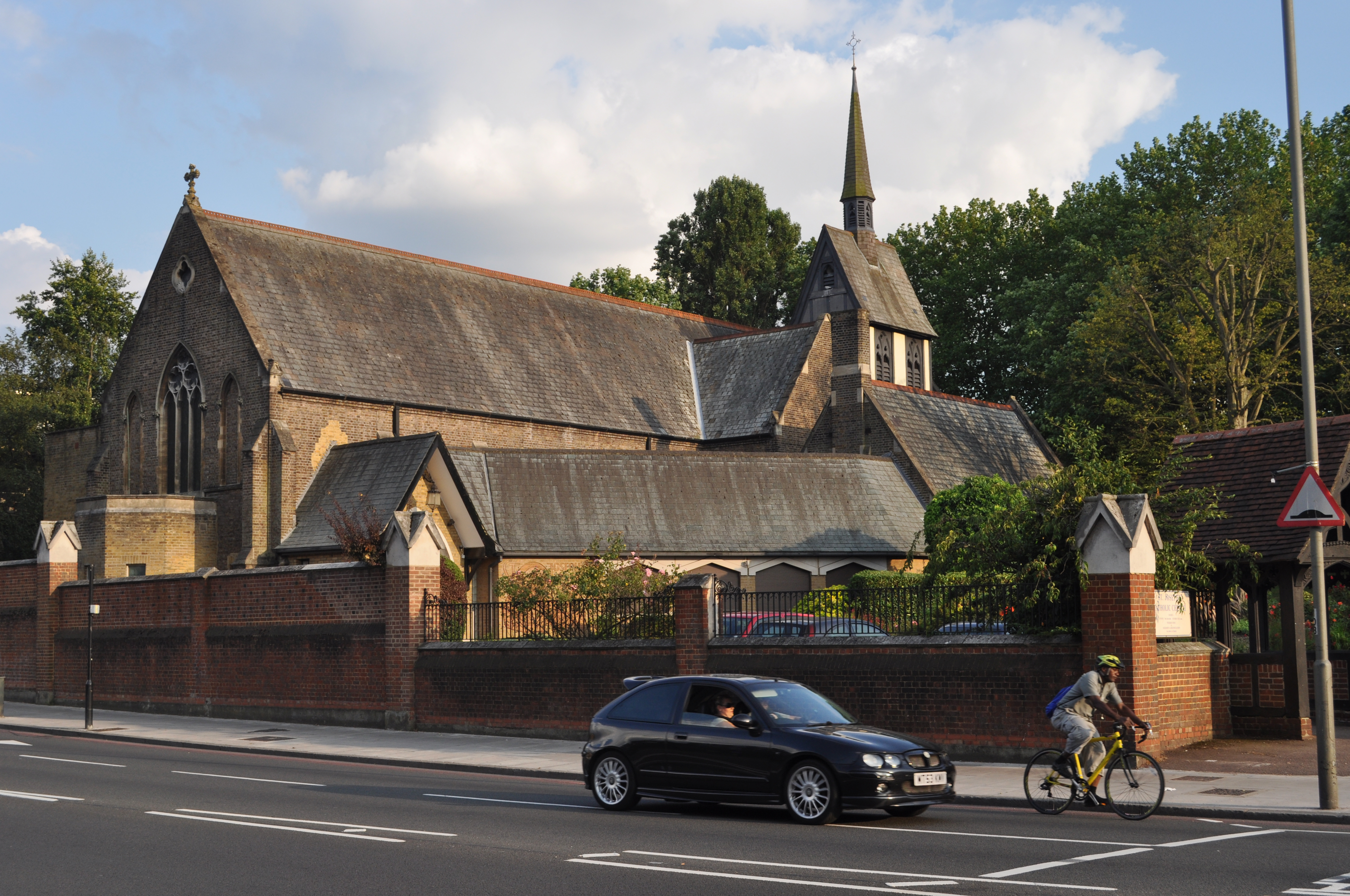 St Joseph's Catholic Church, in Roehampton, a district within the London Borough of Wandsworth